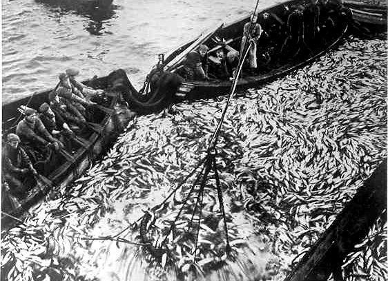 Norwegian dories alongside fishing vessel.